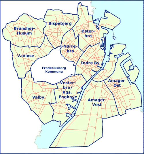 This is a map of the 10 official districts (bydele) of Copenhagen. Crop of Districts of Copenhagen urban area.jpg